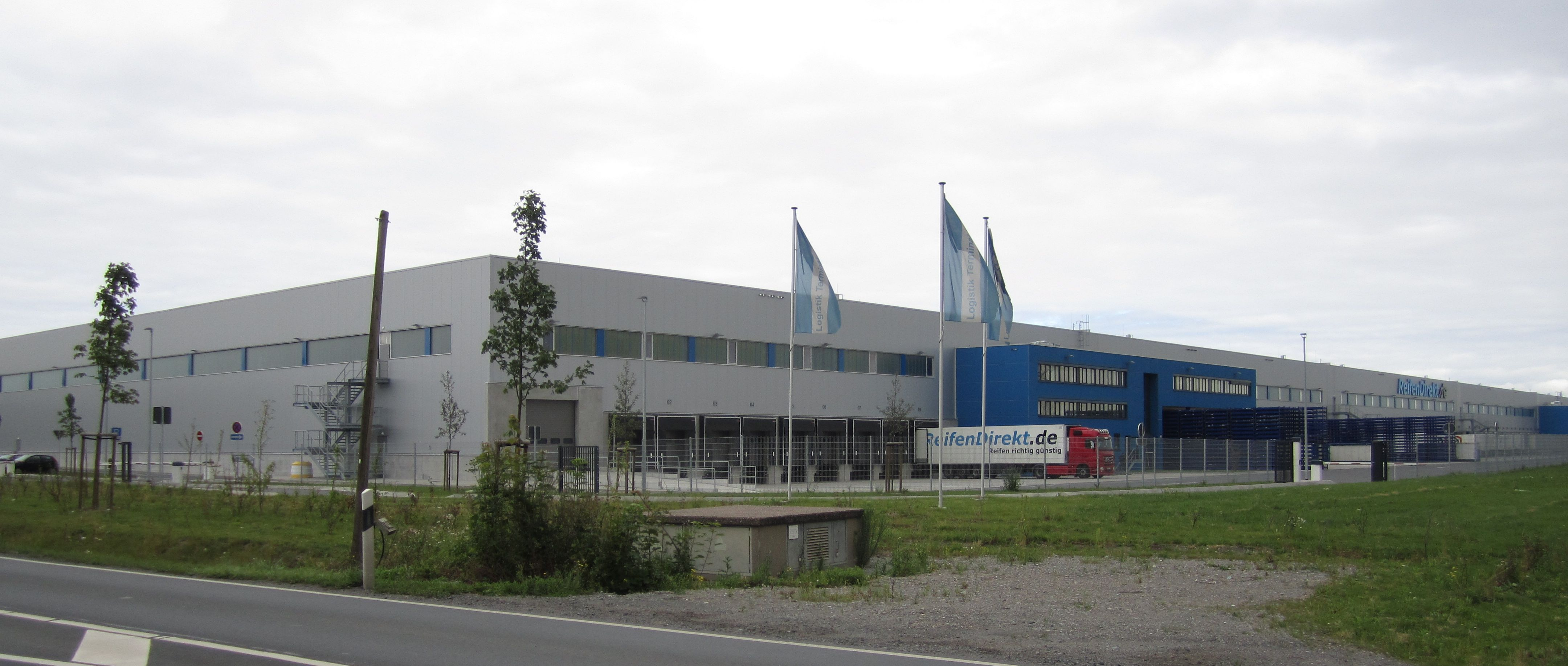 Tire magazine in Höver near Hanover, Germany.